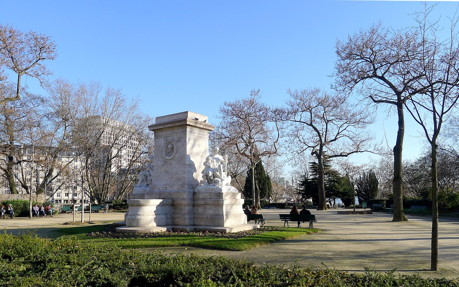 Barye square - Paris